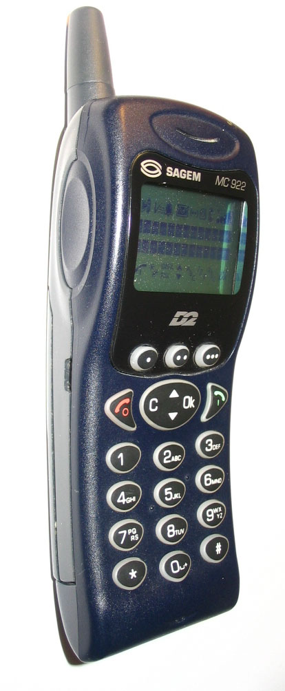 Image by Wassily 17.01.2006 Sagem MC922